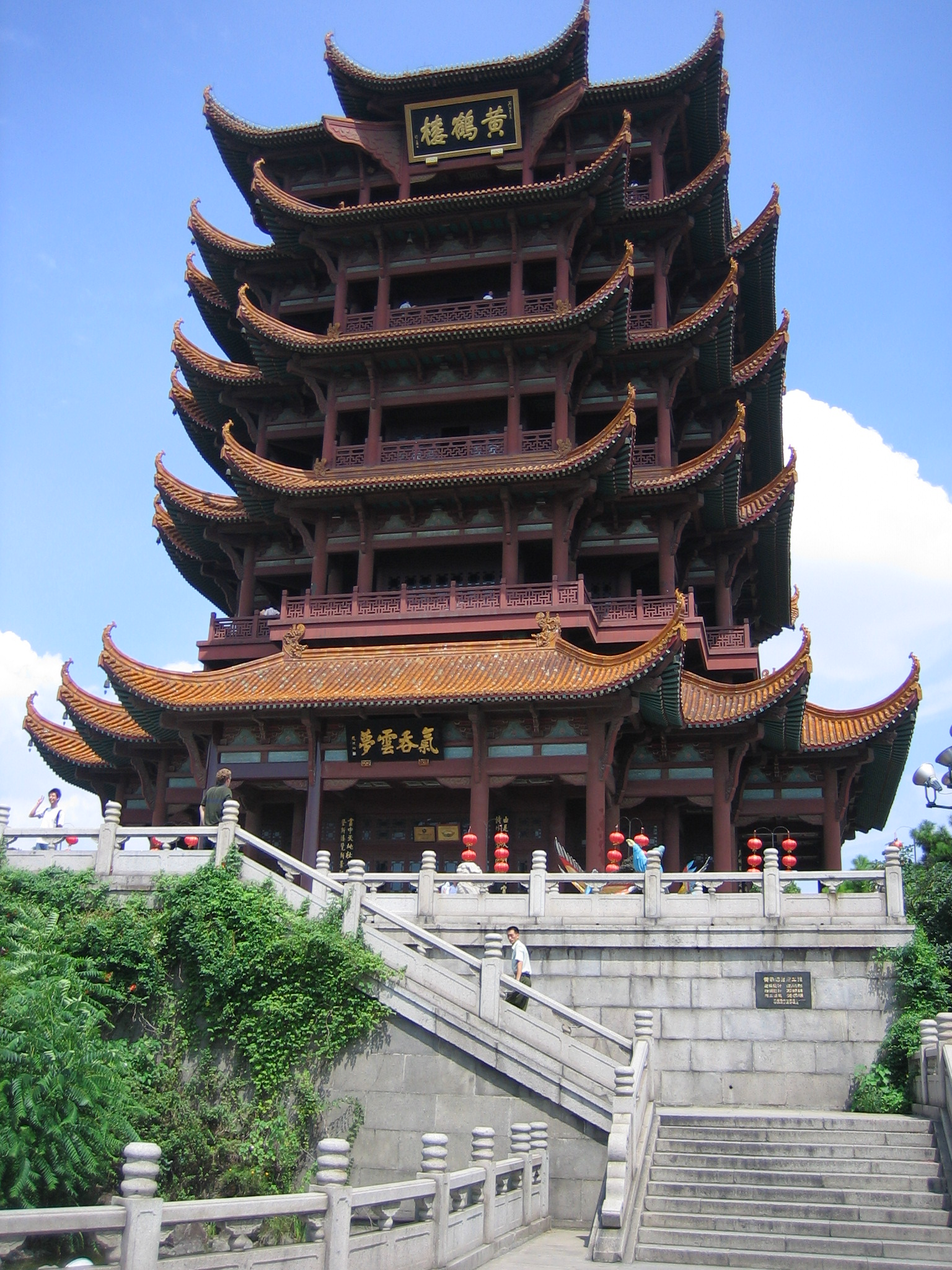 Diakiw, personal photo